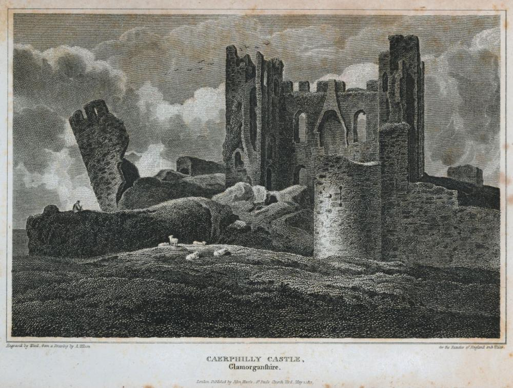 A view of the ruins of Caerphilly castle with the prominent leaning tower on one side. Sheep are grazing on the grounds in the foreground.